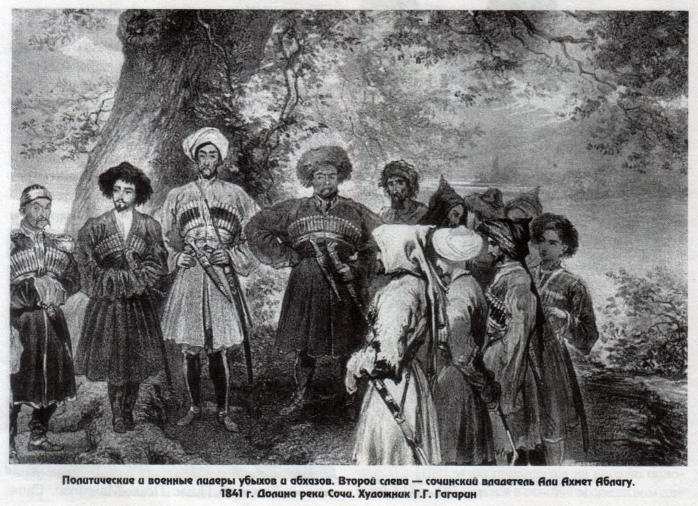 The Ubykh and Abkhazian leaders in the River Sochi valley, 1841. Picture of known Russian artist Gagarin